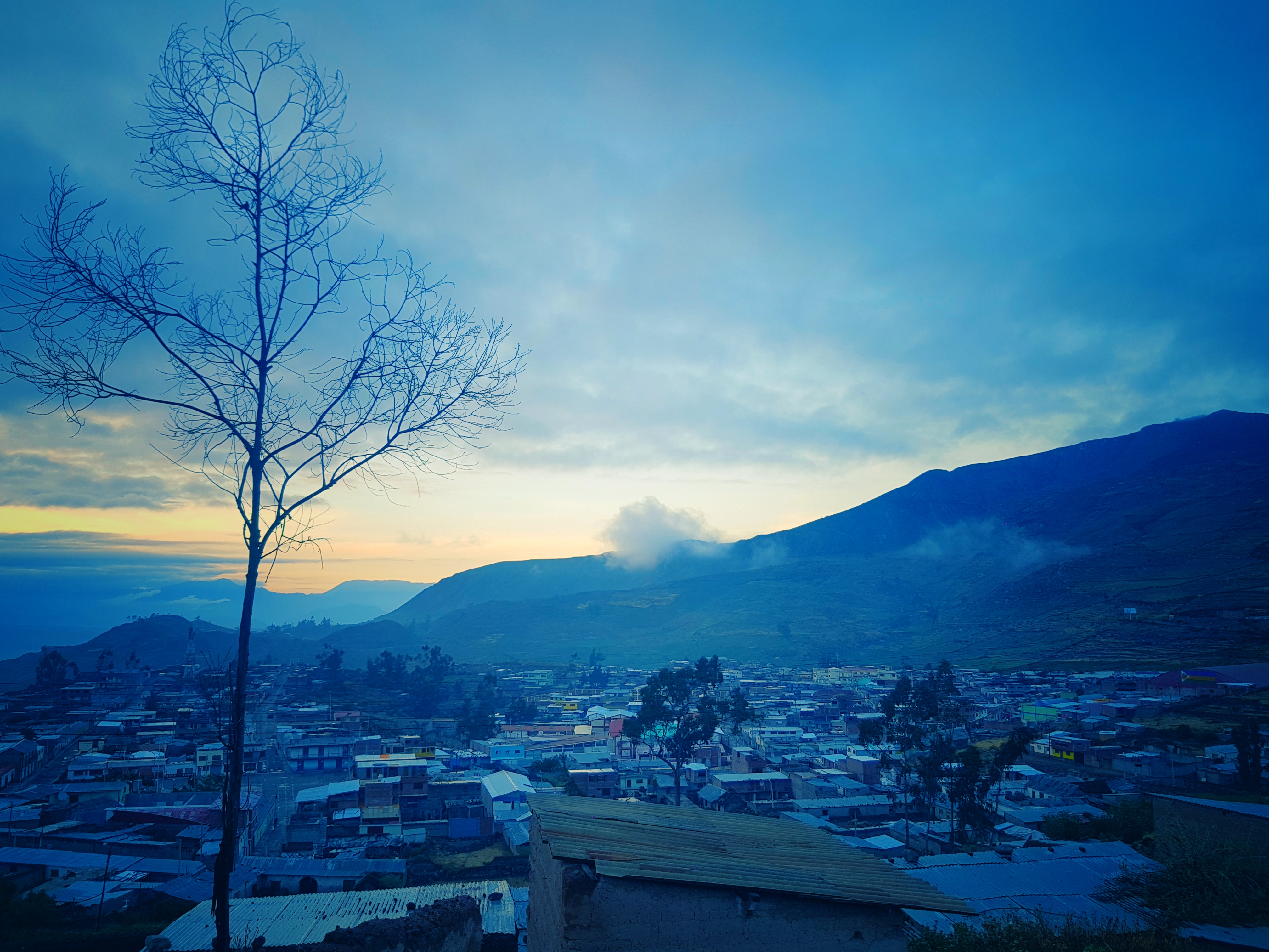 Sunrise in the town of Candarave